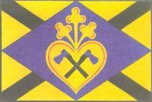 Flag of Žítková